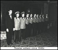 Rialto cinema ushers, Atlanta, Georgia, United States.